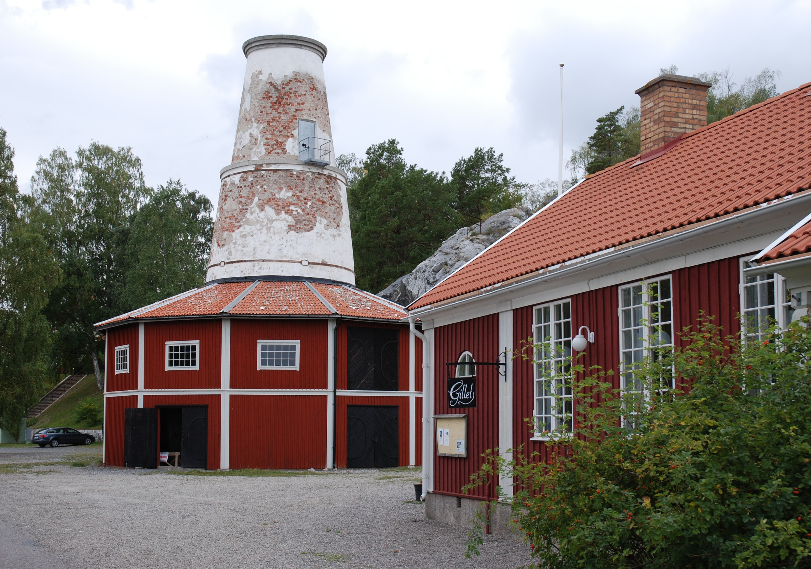 Lime oven "Ettans ugn" at Oaxen, Sweden. Constructed 1880-81, decommissioned 1932, restored around 2000.